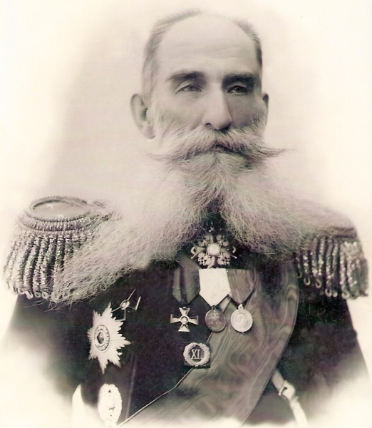 Reineke Alexandr Georgievich, photo